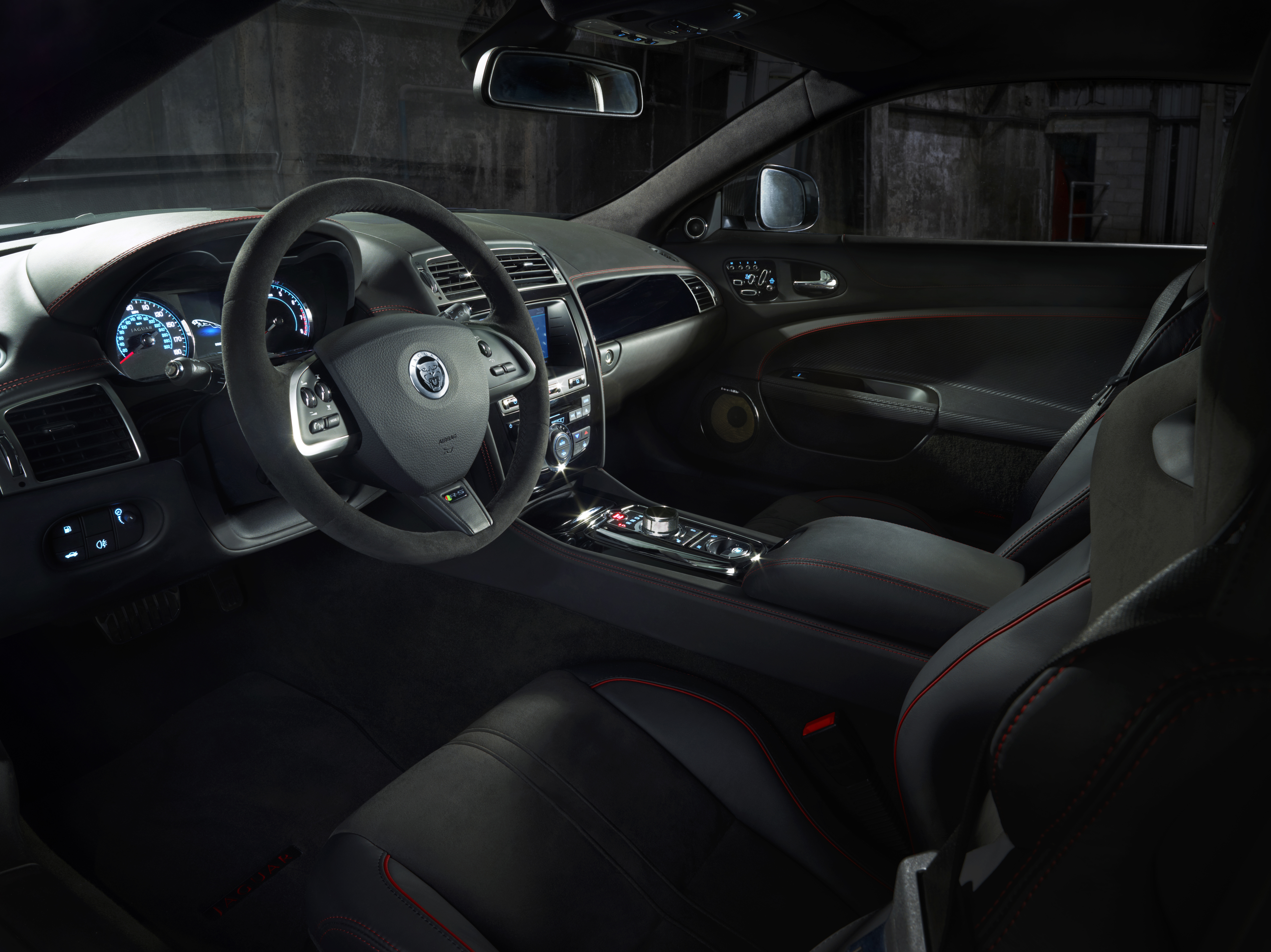 The XKR-S GT is the most extreme iteration of the Jaguar R Brand's performance focus. Utilising race-car derived technology, all-aluminium construction and an uncompromised approach to aerodynamic efficiency, the result is a car as capable on the track as it is exhilarating on the road.